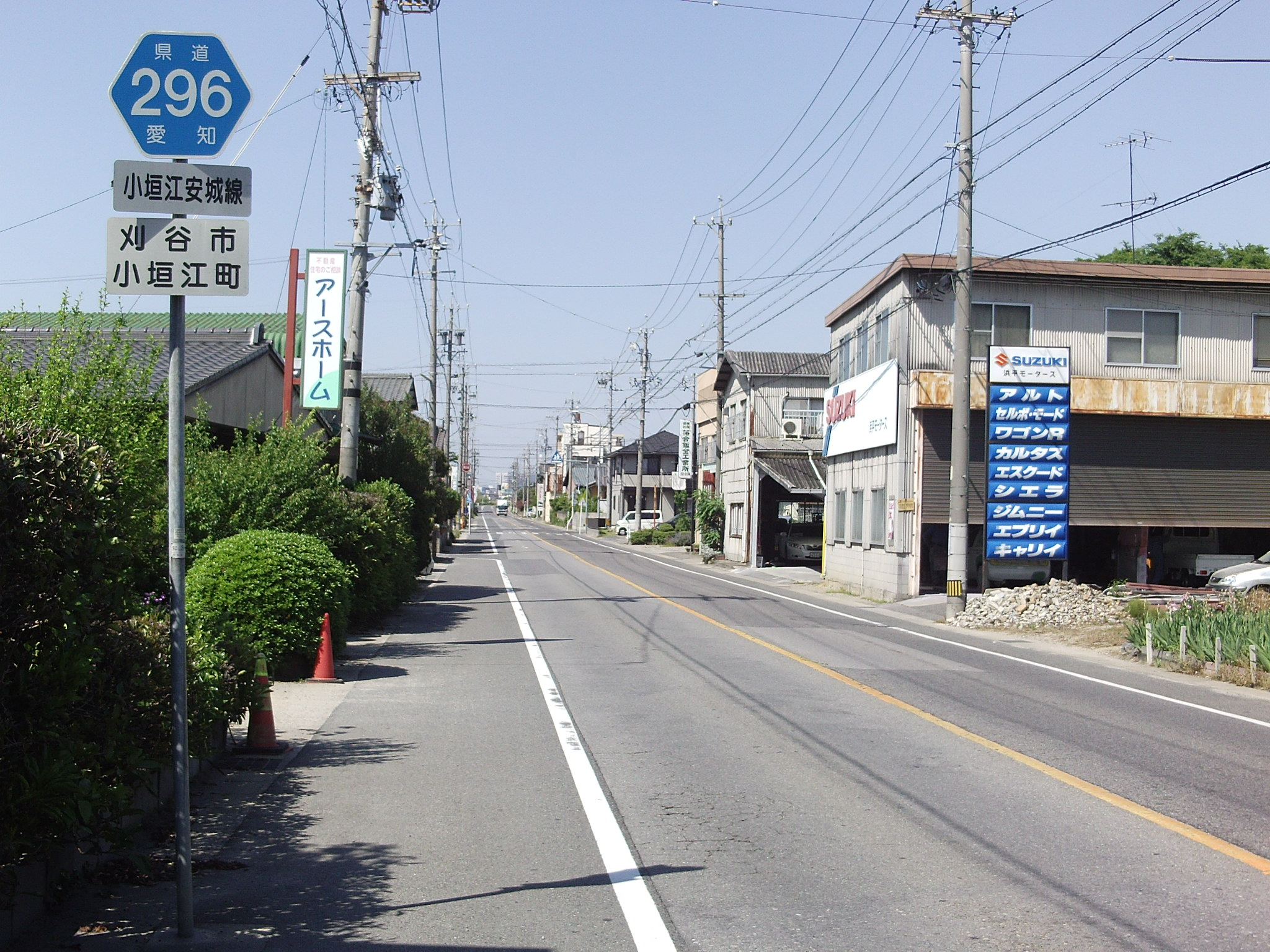 Aichi prefectural road No.296 in Ogakiecho, Kariya, Aichi.